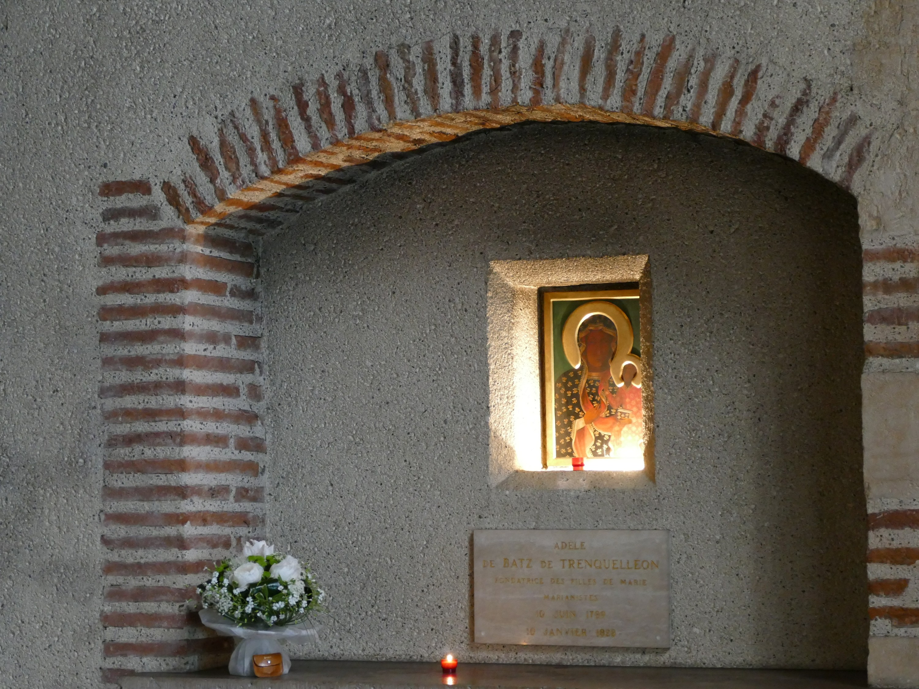 Sainte-Foy's church in Agen (Lot-et-Garonne, Aquitaine, France).